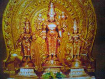 Photo taken at public